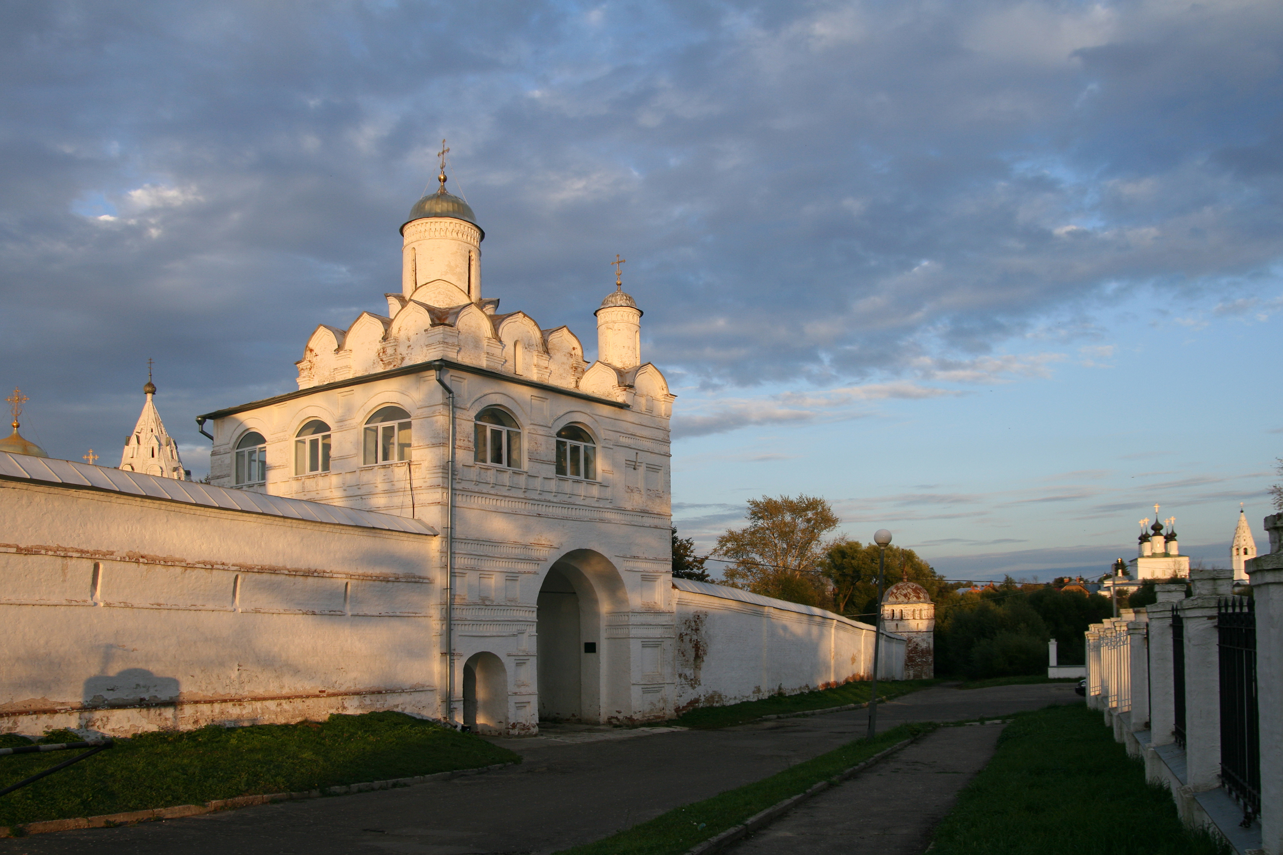 The Barbican Church of the Annunciation, Convent of Intercession, Suzdal, 1515